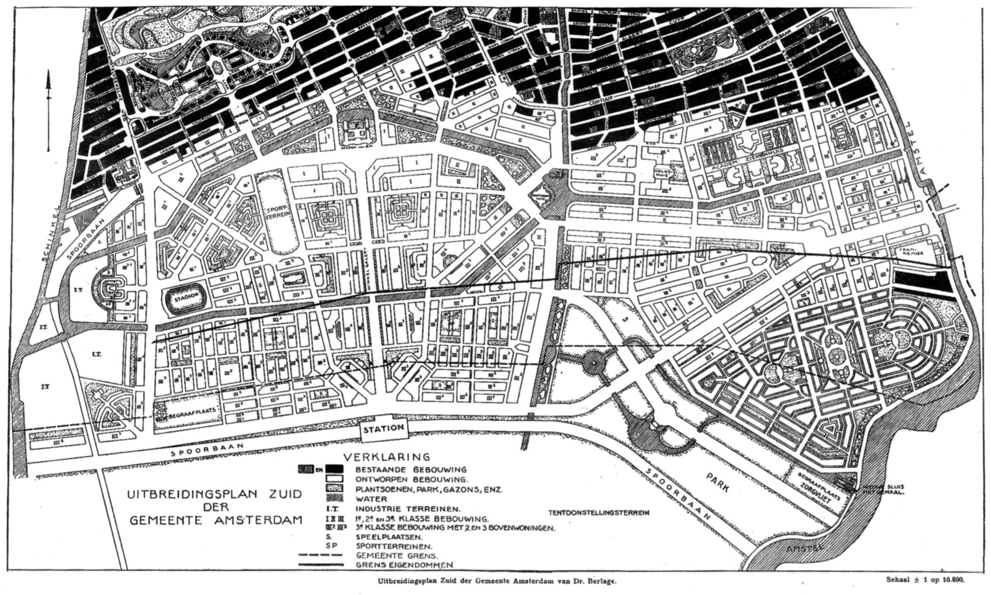 Plan for extension of Amsterdam-Zuid, street plan.